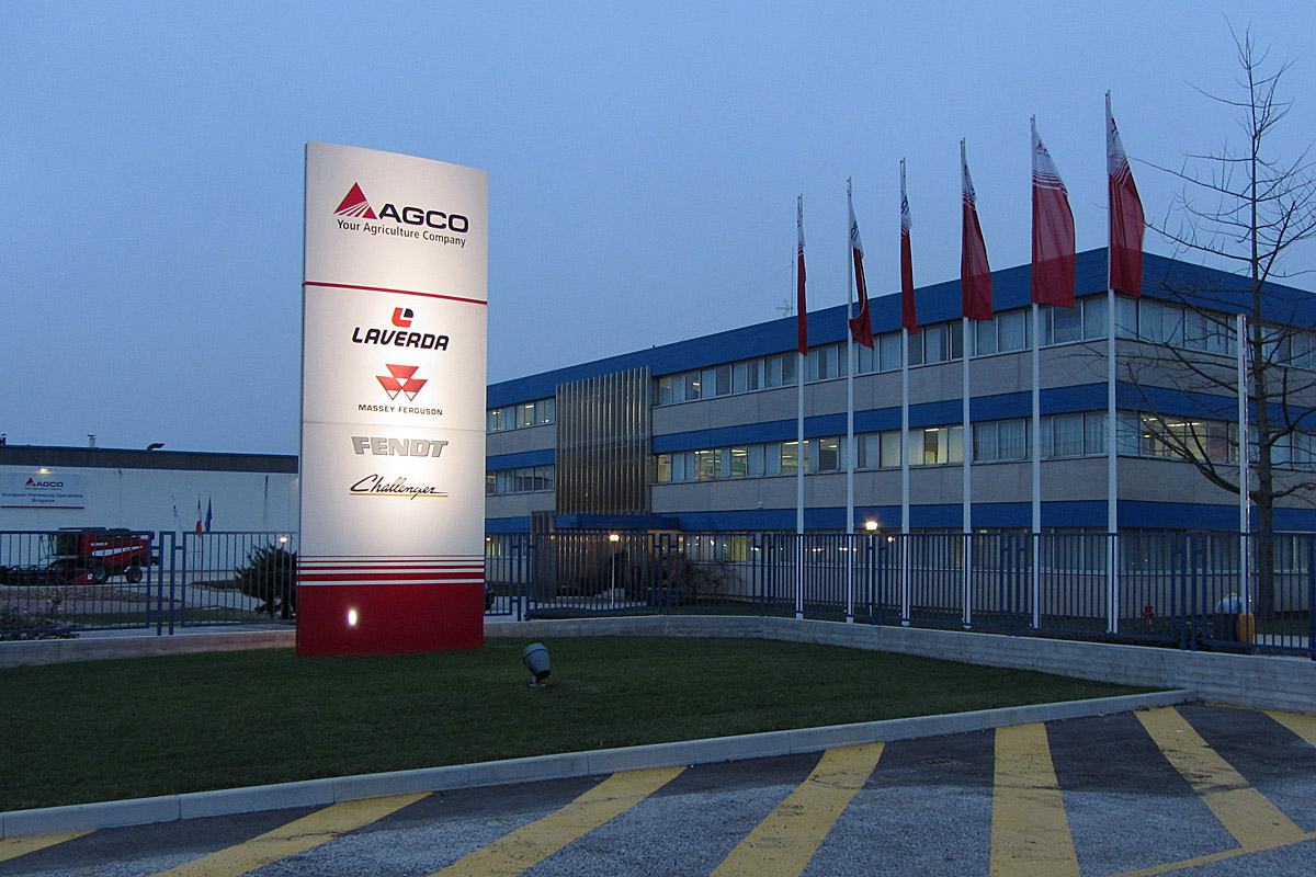 Main entrance of Laverda headquarter and production site in Breganze, Italy.